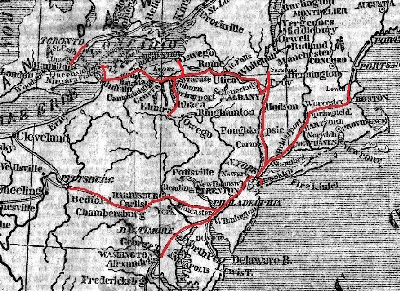 Cropped and highlighted version of map appearing in January 22, 1848 issue of the New York Herald showing telegraph system as of that time. Red highlights on this map show extent of line in operation as of December 31, 1846.